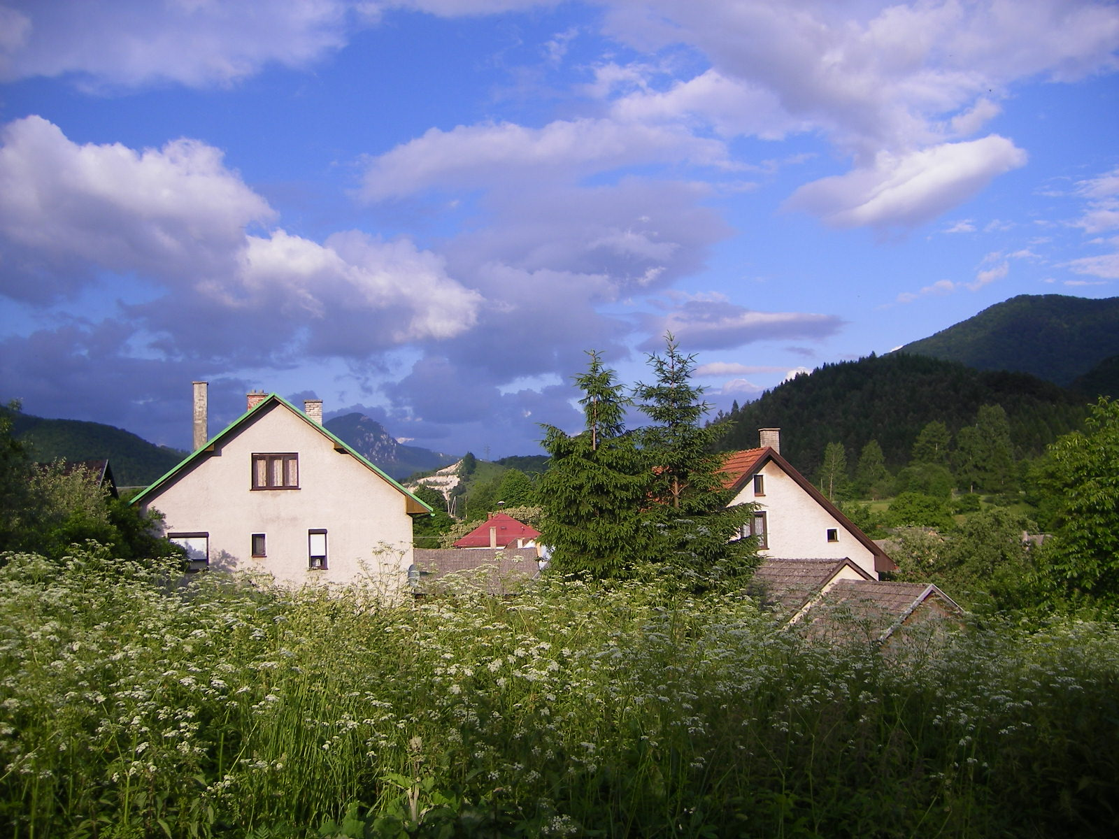 Šútovo